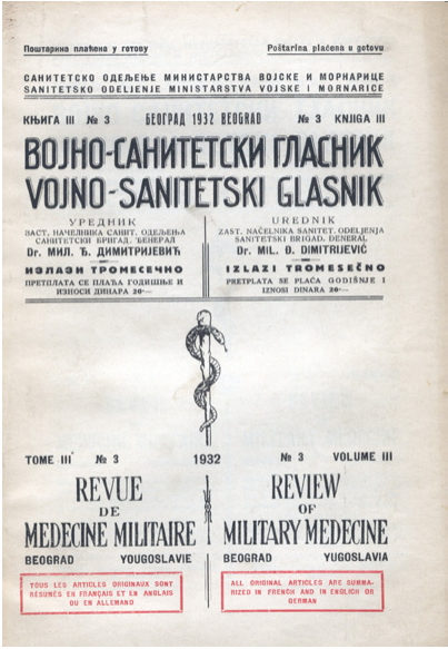 Cover of Scientific journal Vojnosanitetski pregled (former Vojno-sanitetski glasnik), 1932, Serbia